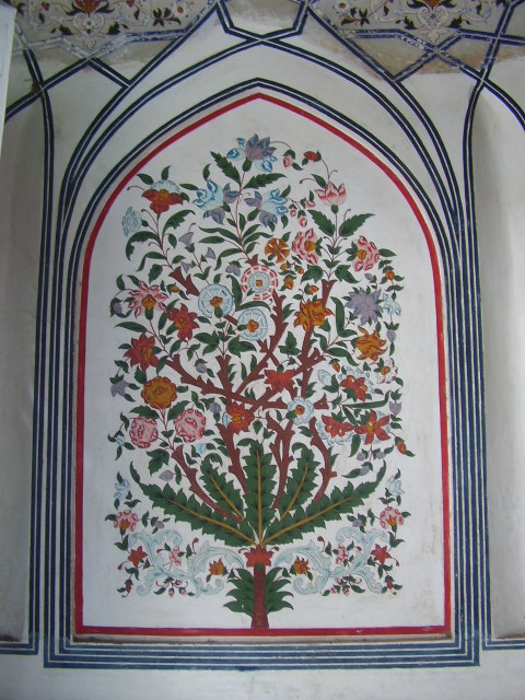 Flower work inside Mahabat Khan Mosque Peshawar